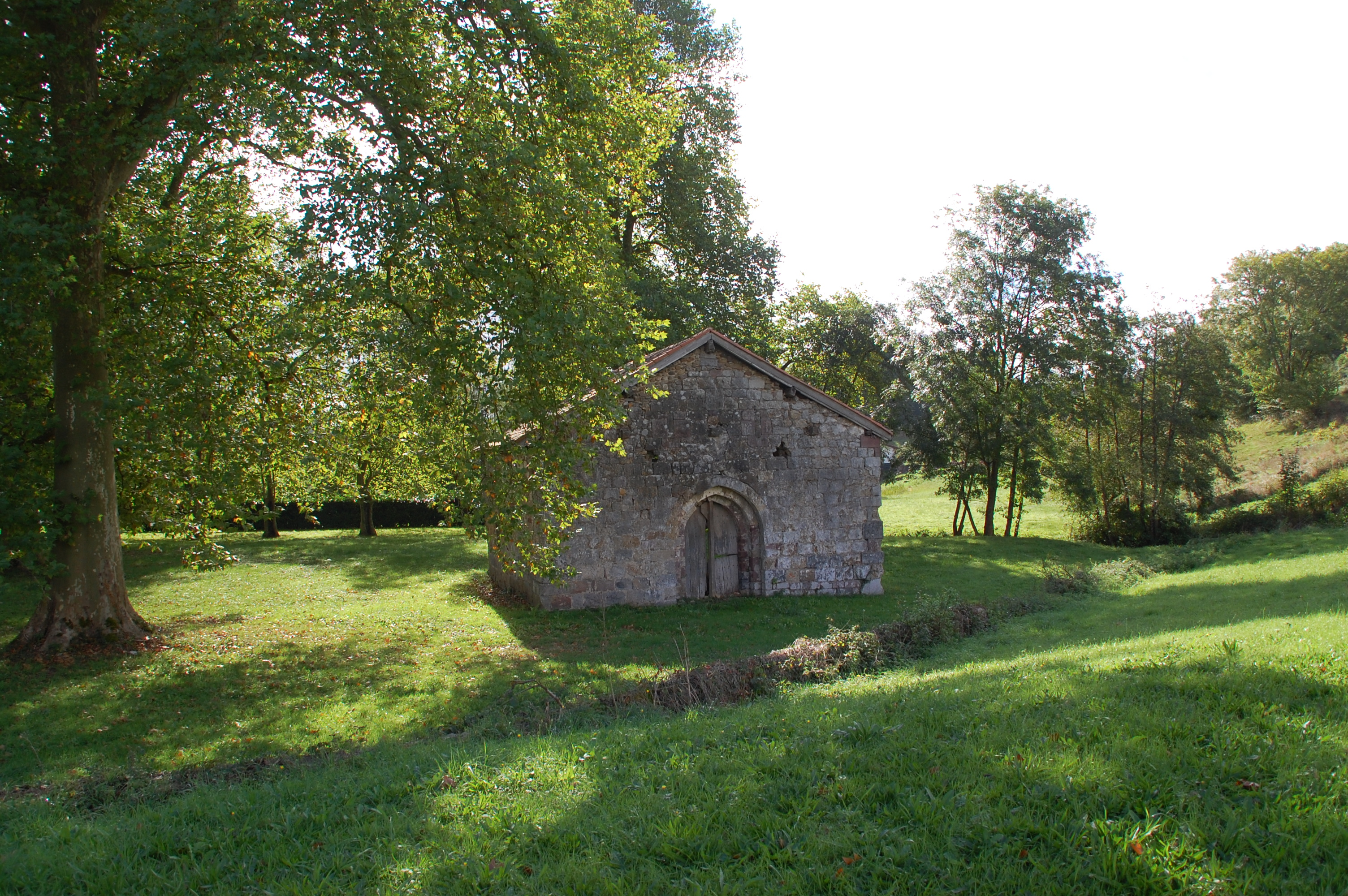 Chapelle Saint-Blaise de Saint-Jean-le-Vieux